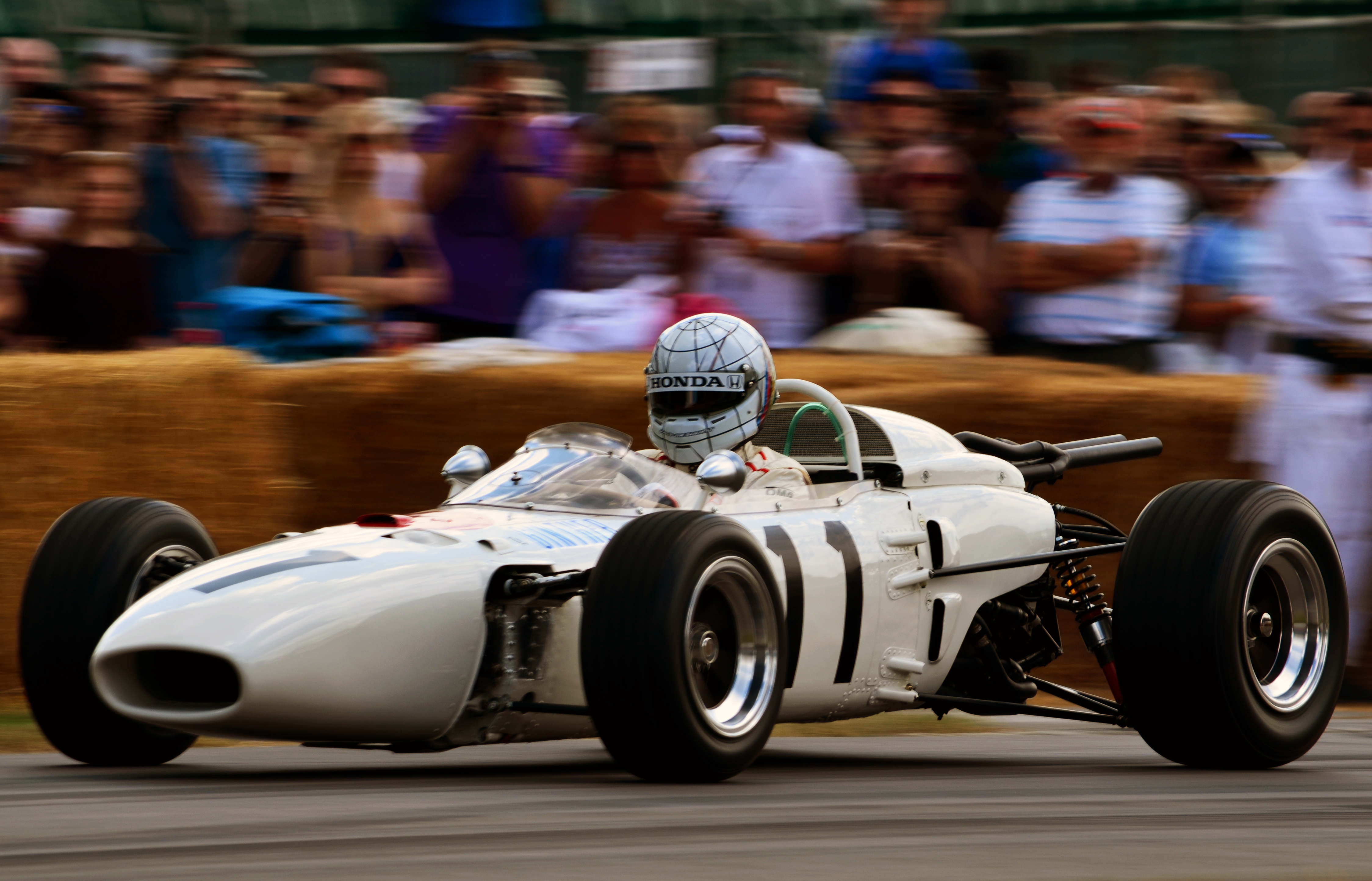 The Honda RA272 F1 car at the 2014 Goodwood Festival of Speed.